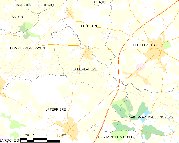 Map of French municipality La Merlatière